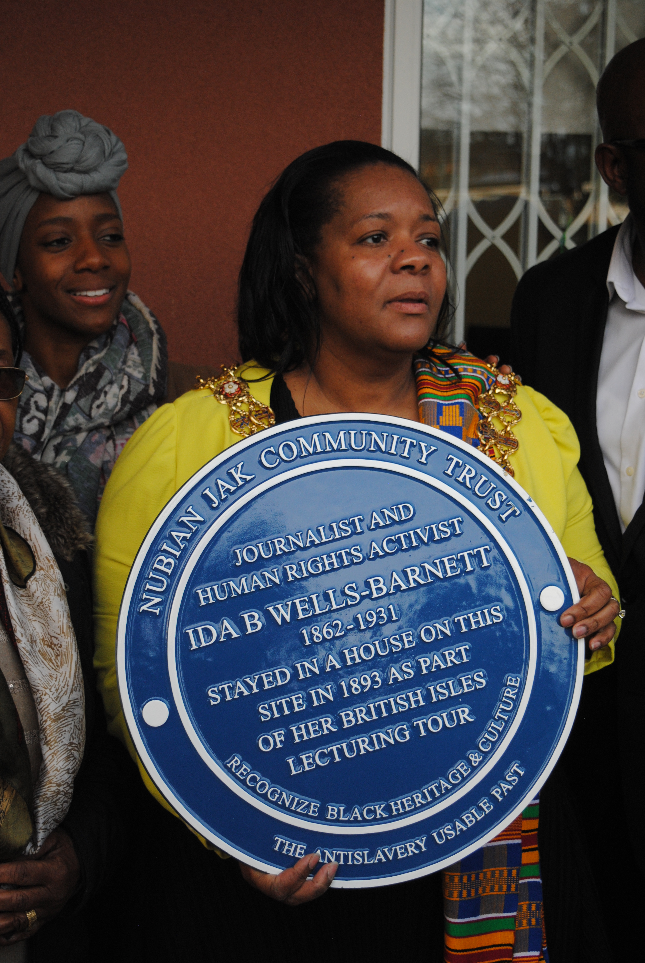 at the unveiling of a blue plaque commemorating Ida B. Wells at Edgbaston Community Centre, Birmingham, England.